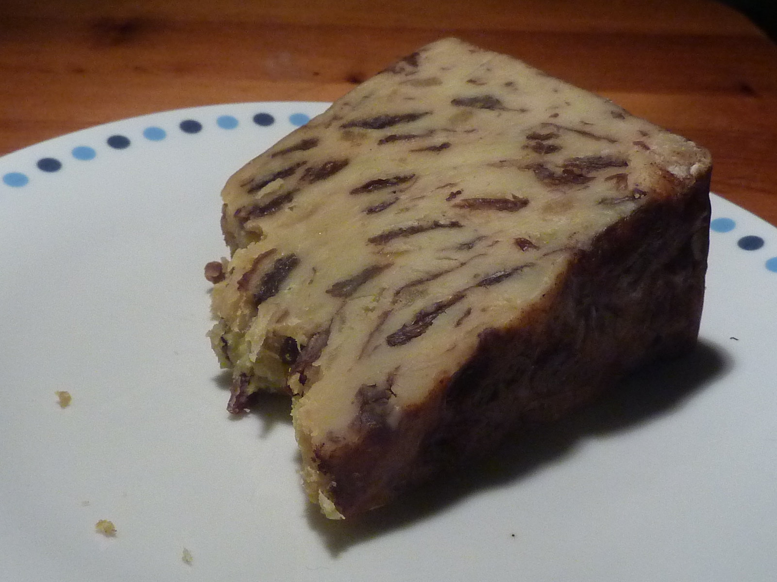 A partially eaten wedge of Bowland cheese, on a plate.